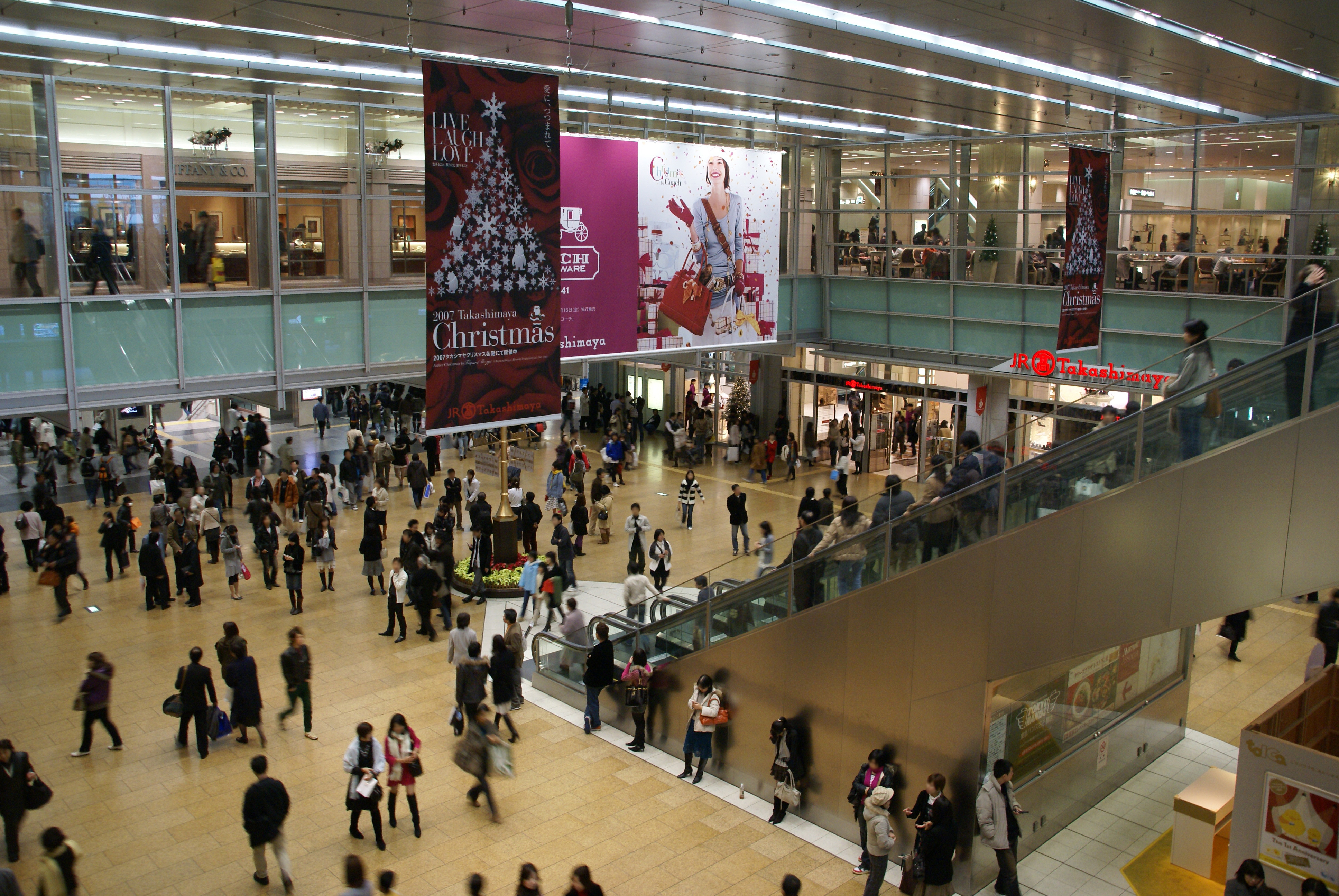 Nagoya Station in Aichi prefecture, Japan